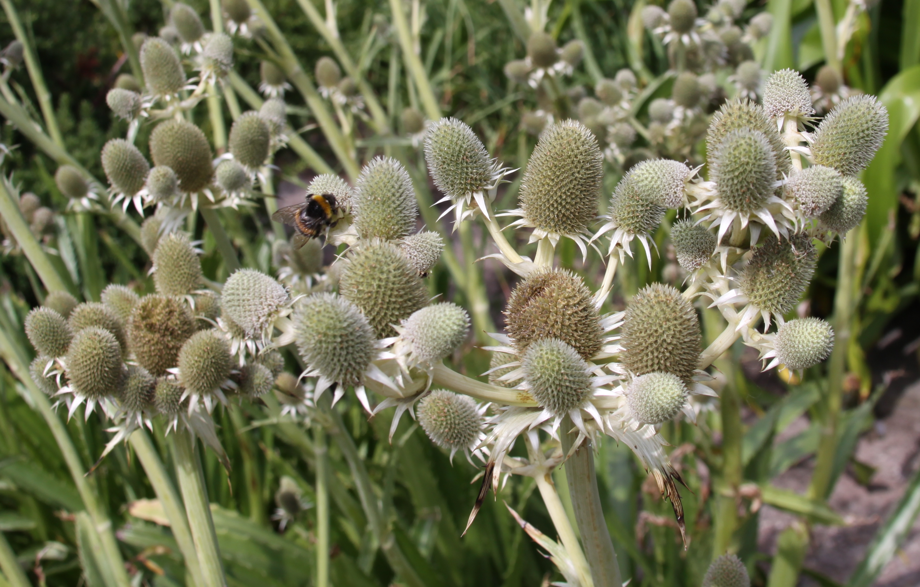 At Copenhagen Botanical Garden, Denmark